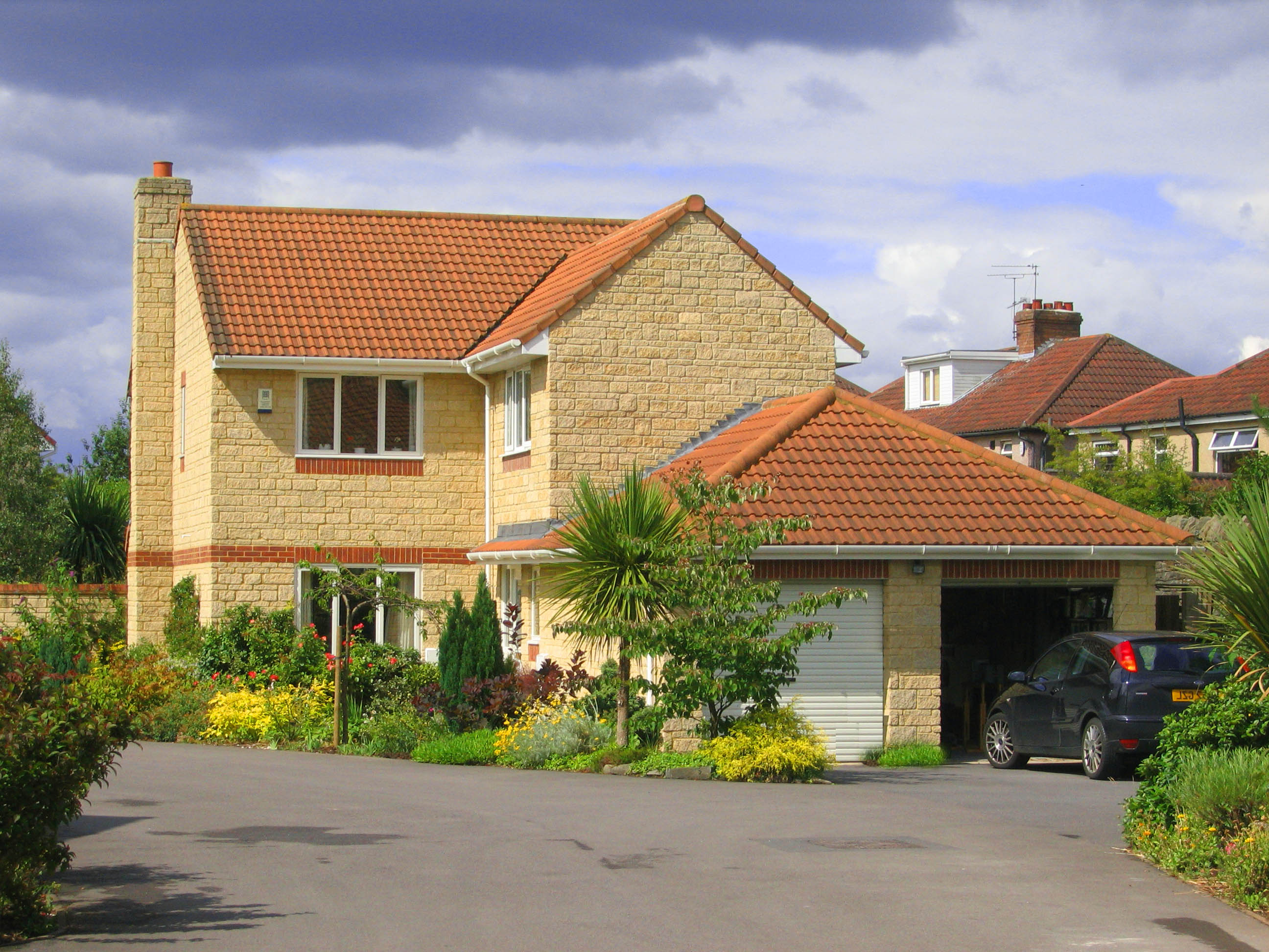 A typical home on the Glendale Grange division of Stapleton Bristol UK